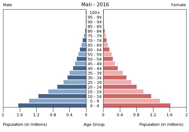 The population pyramid of Mali illustrates the age and sex structure of population and may provide insights about political and social stability, as well as economic development. The population is distributed along the horizontal axis, with males shown on the left and females on the right. The male and female populations are broken down into 5-year age groups represented as horizontal bars along the vertical axis, with the youngest age groups at the bottom and the oldest at the top. The shape of the population pyramid gradually evolves over time based on fertility, mortality, and international migration trends.